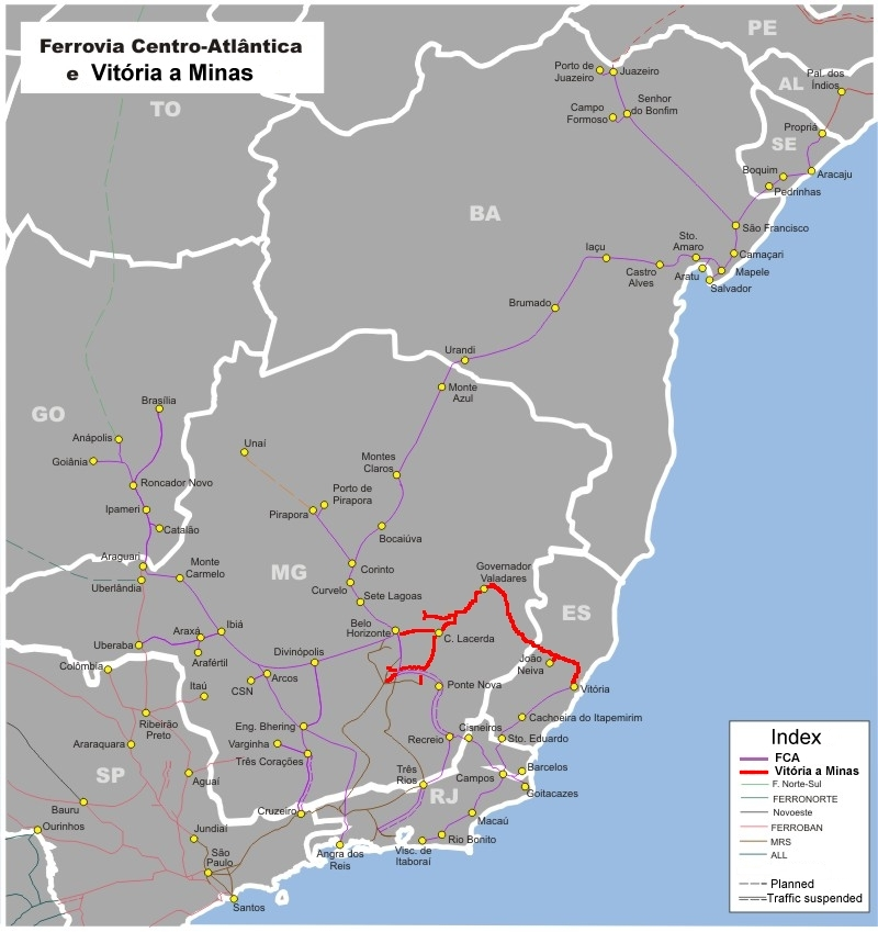 FCA and Vitória a Minas railroads. Map obtained at The map was edited. 1 word was translated into English, the map title was altered and color used to indicate the Vitória a Minas railroad was changed to red in order to facilitate reading. Overall those edits sought to emphasize the FCA and the Vitória a Minas railroads.